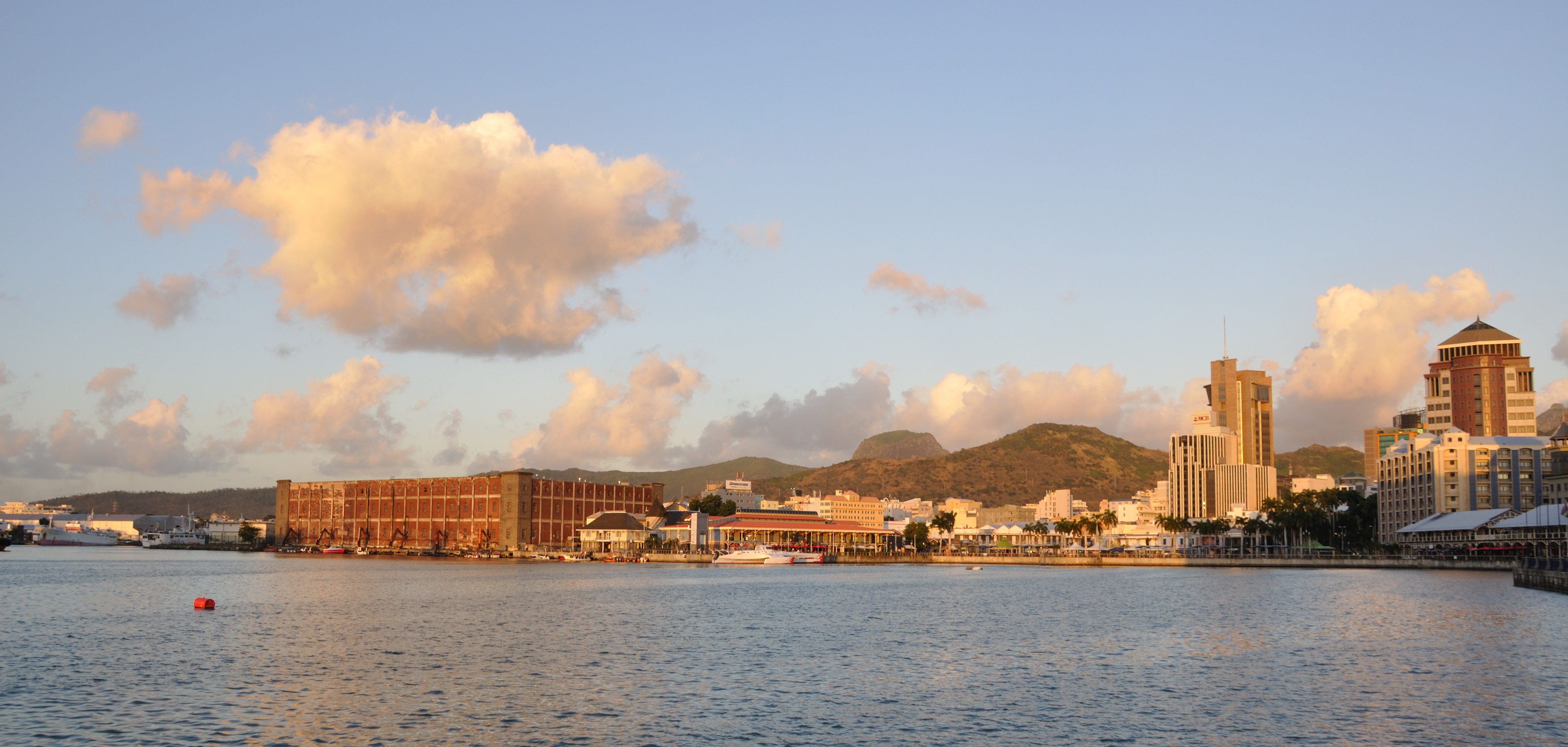 Mauritius, Evening at Port Louis waterfront